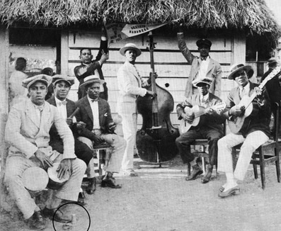 photo of Sexteto Habanero